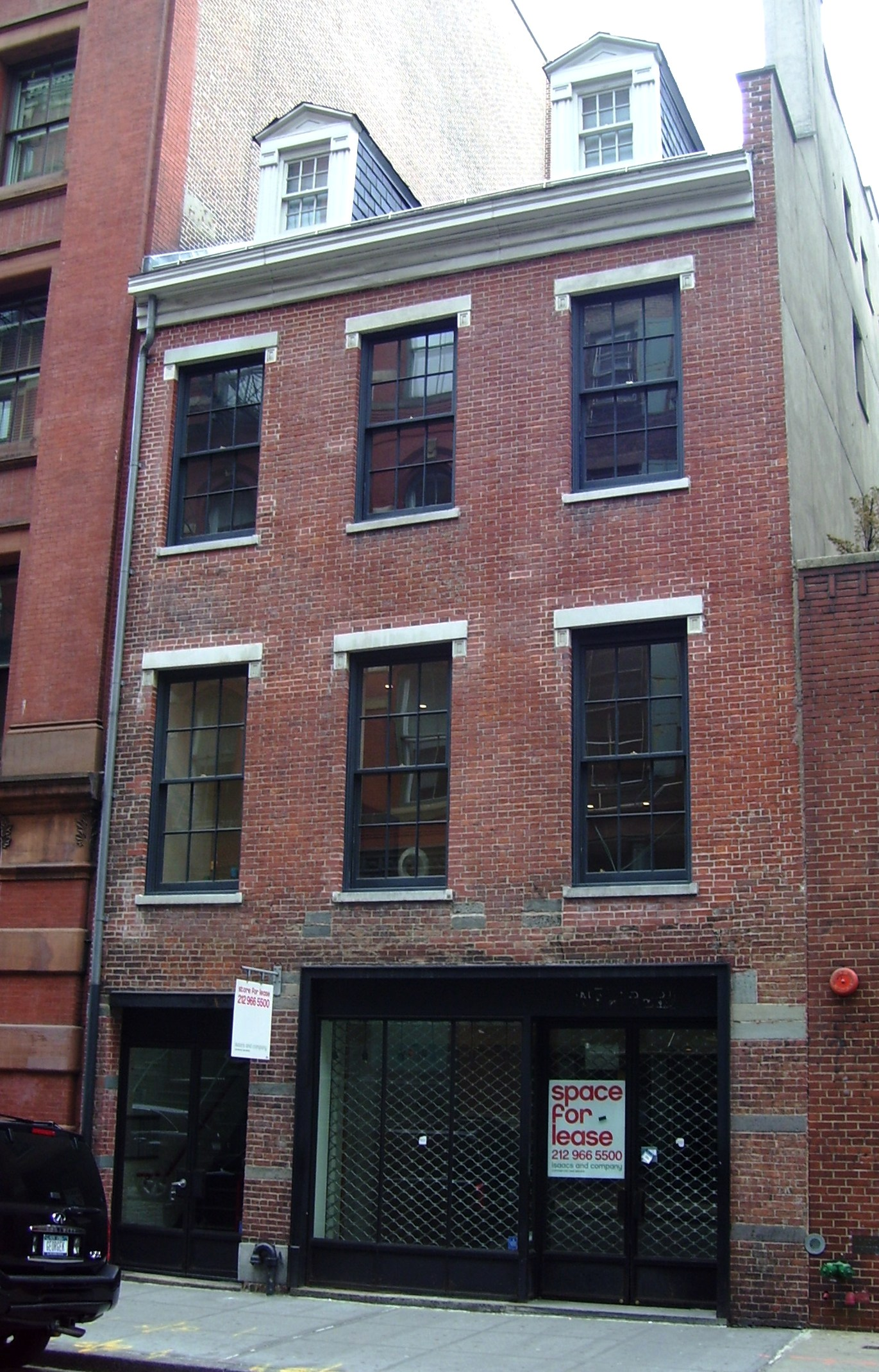 149 Mercer Street between Houston and Prince Streets in the SoHo neighborhood of Manhattan, New York City was built in 1826 as a dwelling. It is located withing the SoHo-Cast Iron Historic District. (Source: SoHo-Cast Iron Historic District Designation Report)